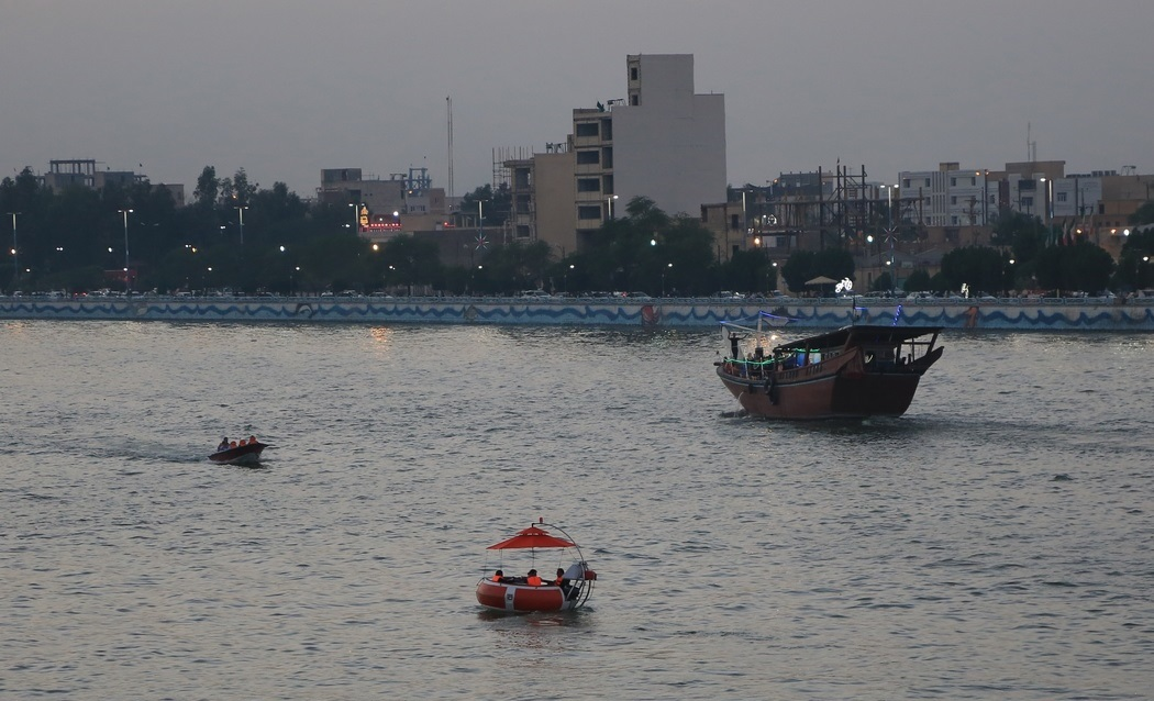 Nowruz 2018 in Khorramshahr. full gallery